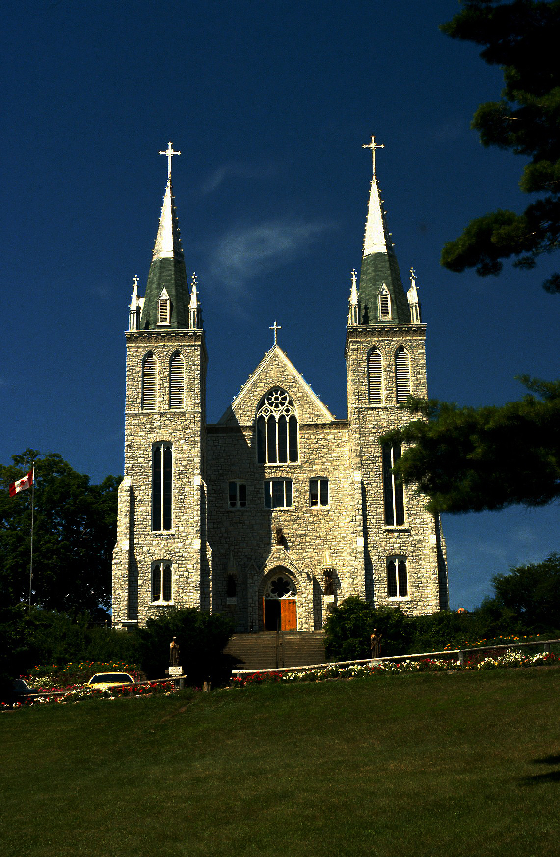 Matyr's Shrine church in Midland Ontario